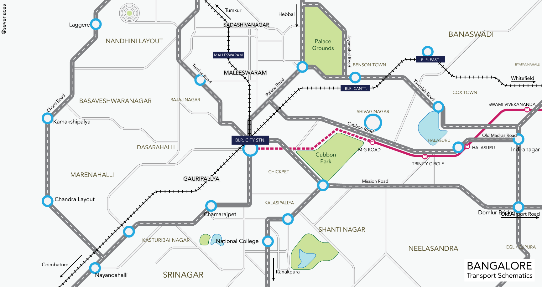 A schematic map of Bangalore.